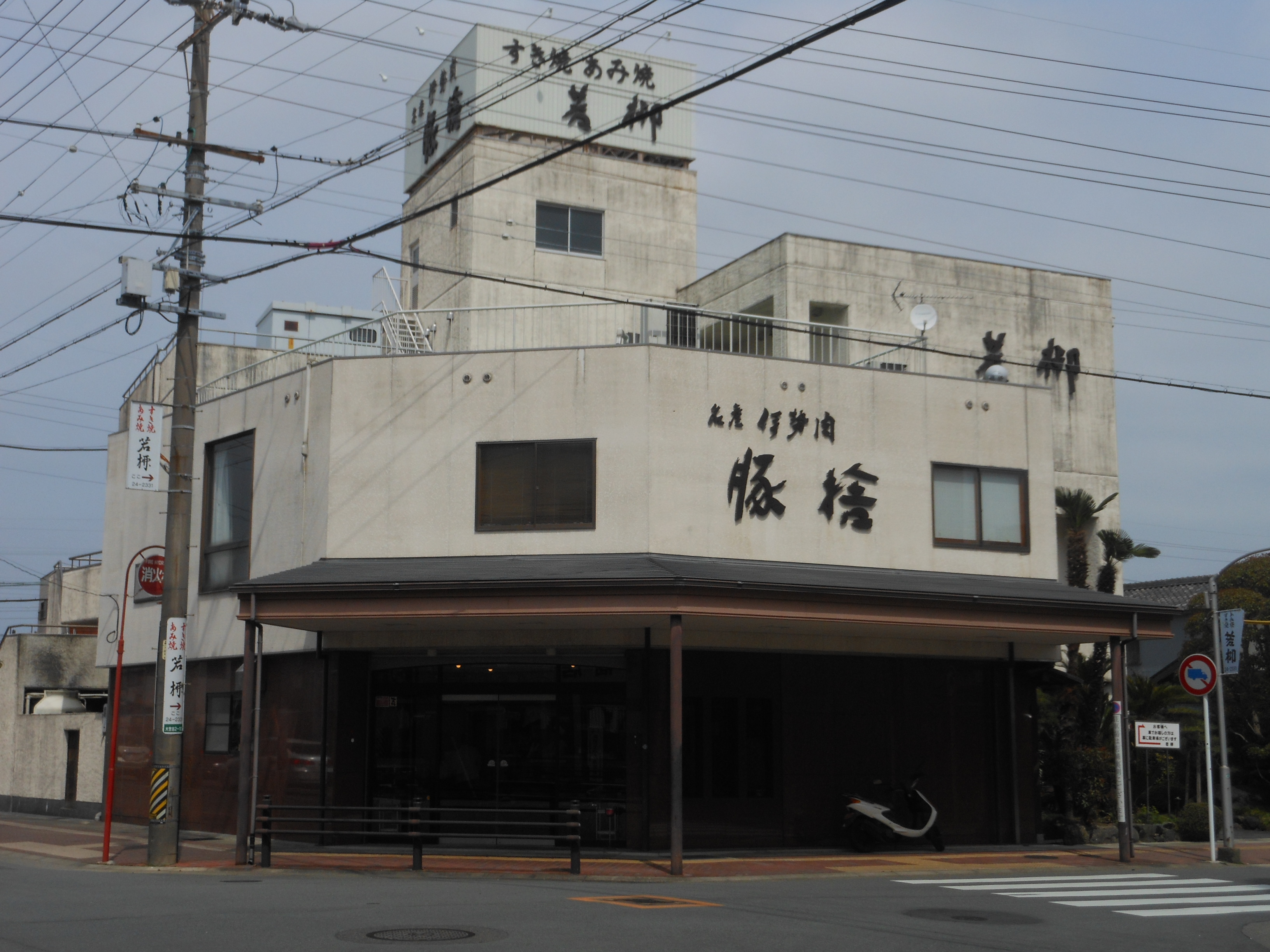 This is main shop of Butasute in Ise, Mie, Japan.